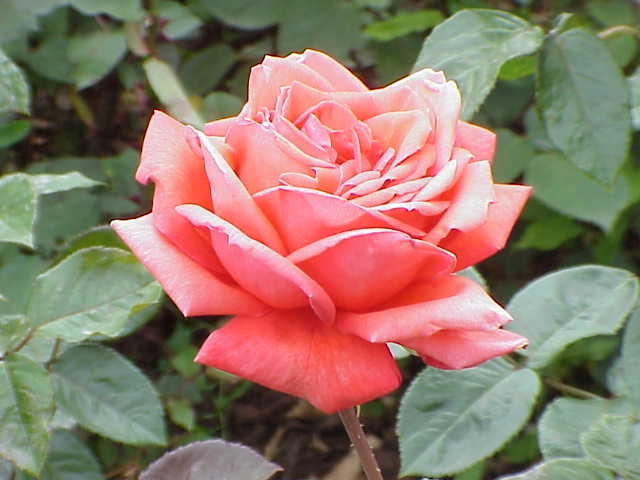 Species: Rosa sp. Family: Rosaceae Cultivar: Lucy Cramphorn, Kriloff 1960 Image No. 173